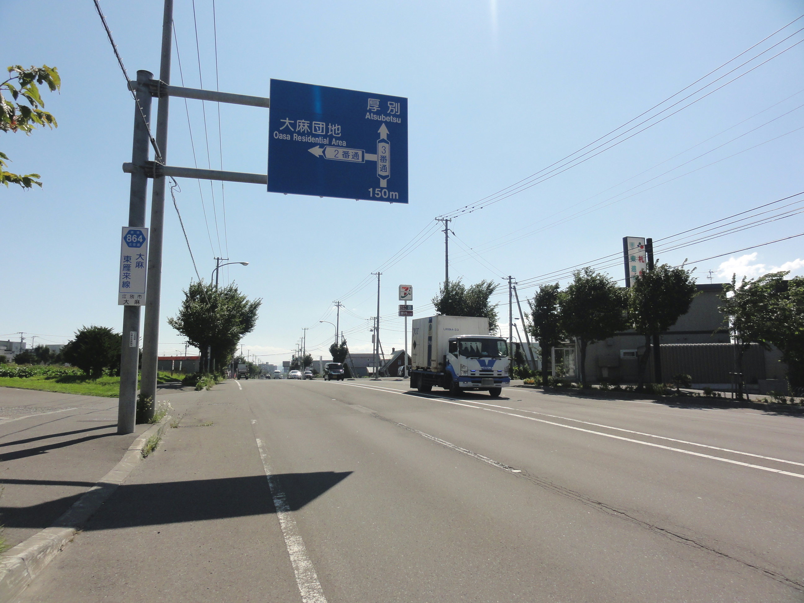 Hokkaido Pref Route 864 (Ebetsu, Hokkaidō)